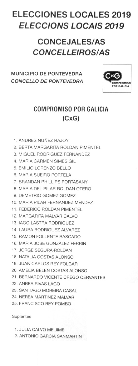 See title.